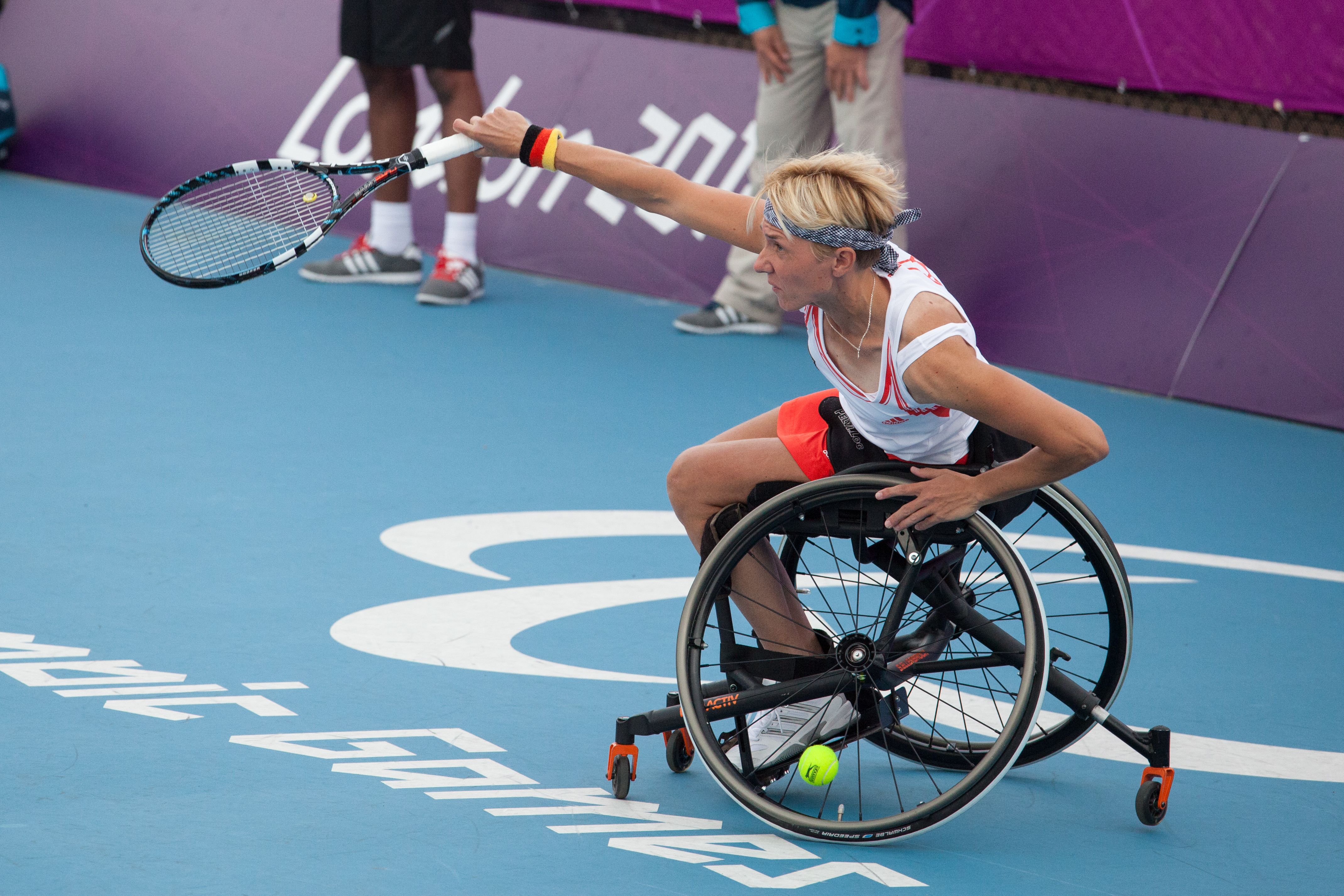 Sabine Ellerbrock serving at the London Paralympic Games.